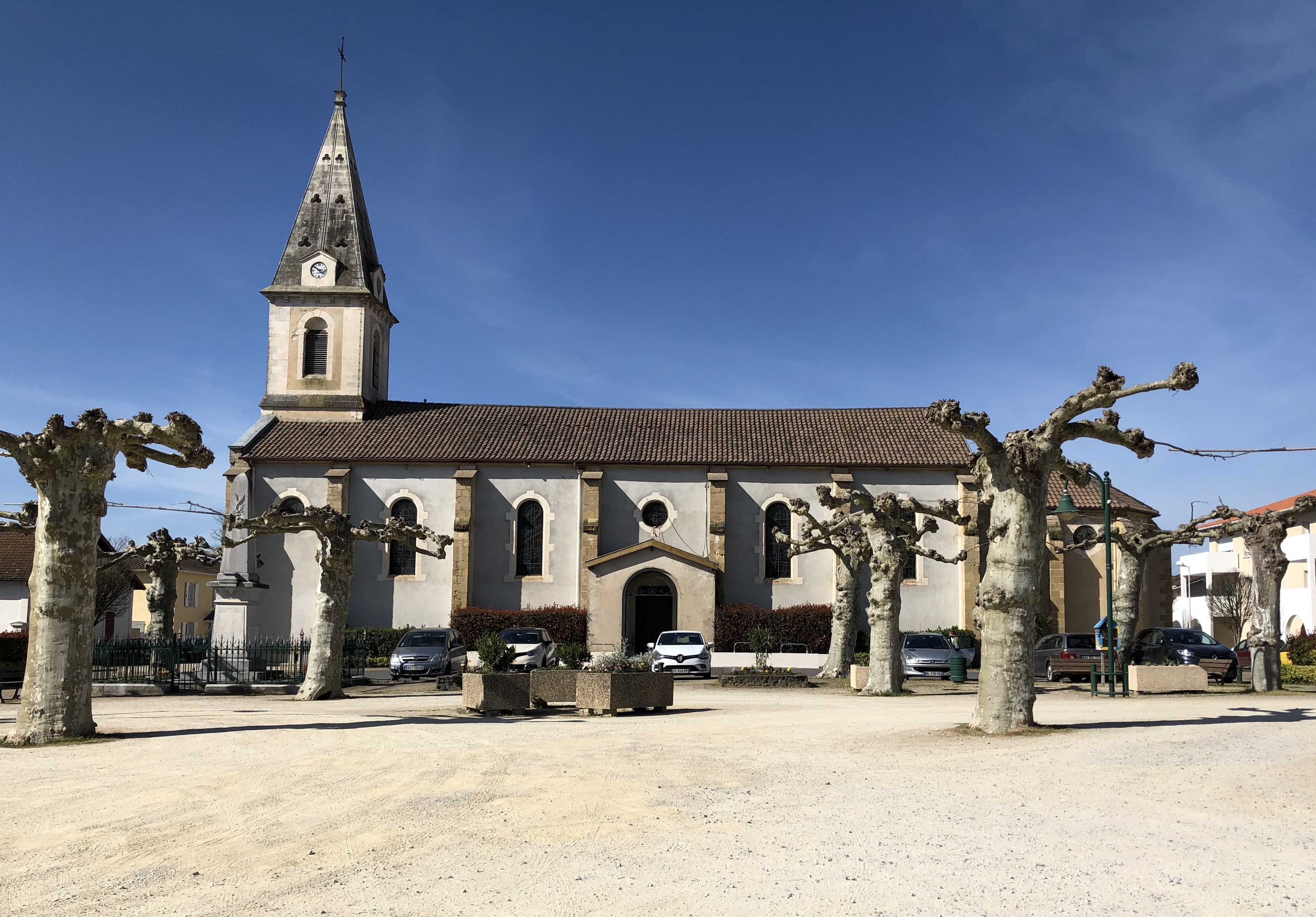 Eglise Saint-Martin de Bénesse-Maremne